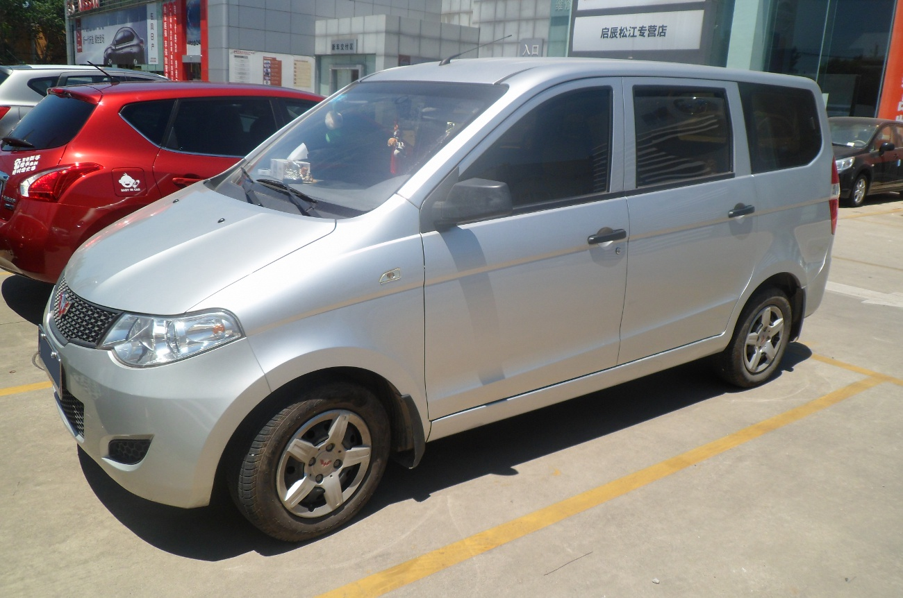 Wuling Hongguang photographed in Shanghai, China.